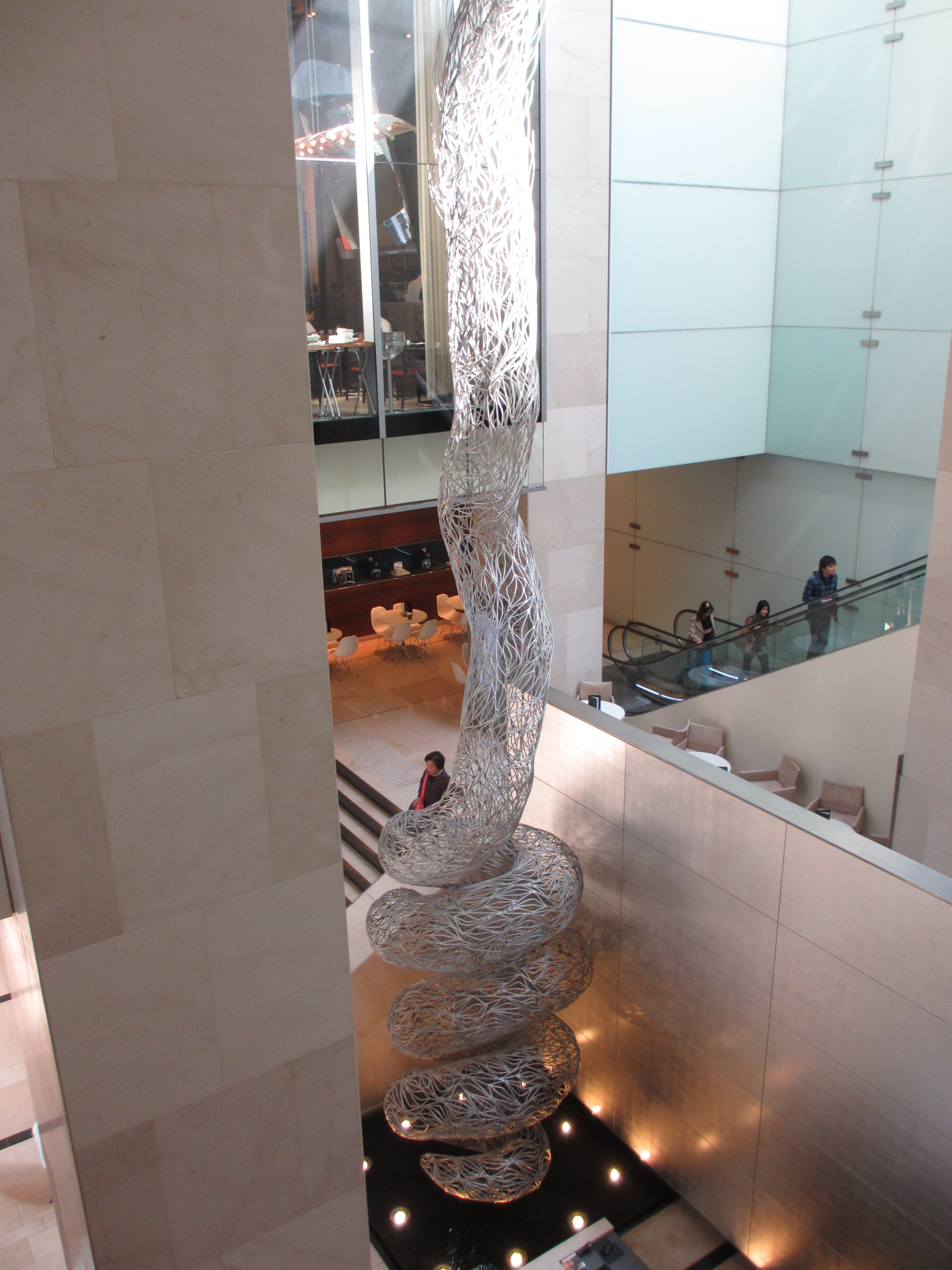 Vine (2005), a sculpture by Bronwyn Oliver